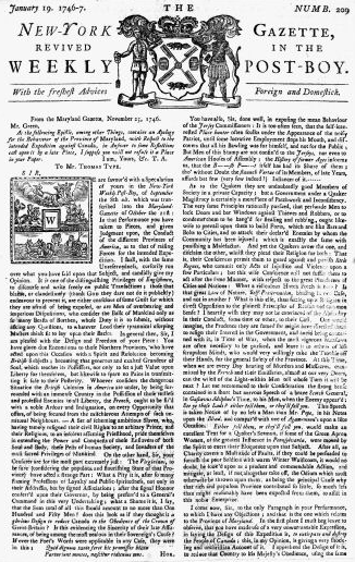 The New-York Gazette, Revived in the Weekly Post-Boy; Date: 01-19-1747